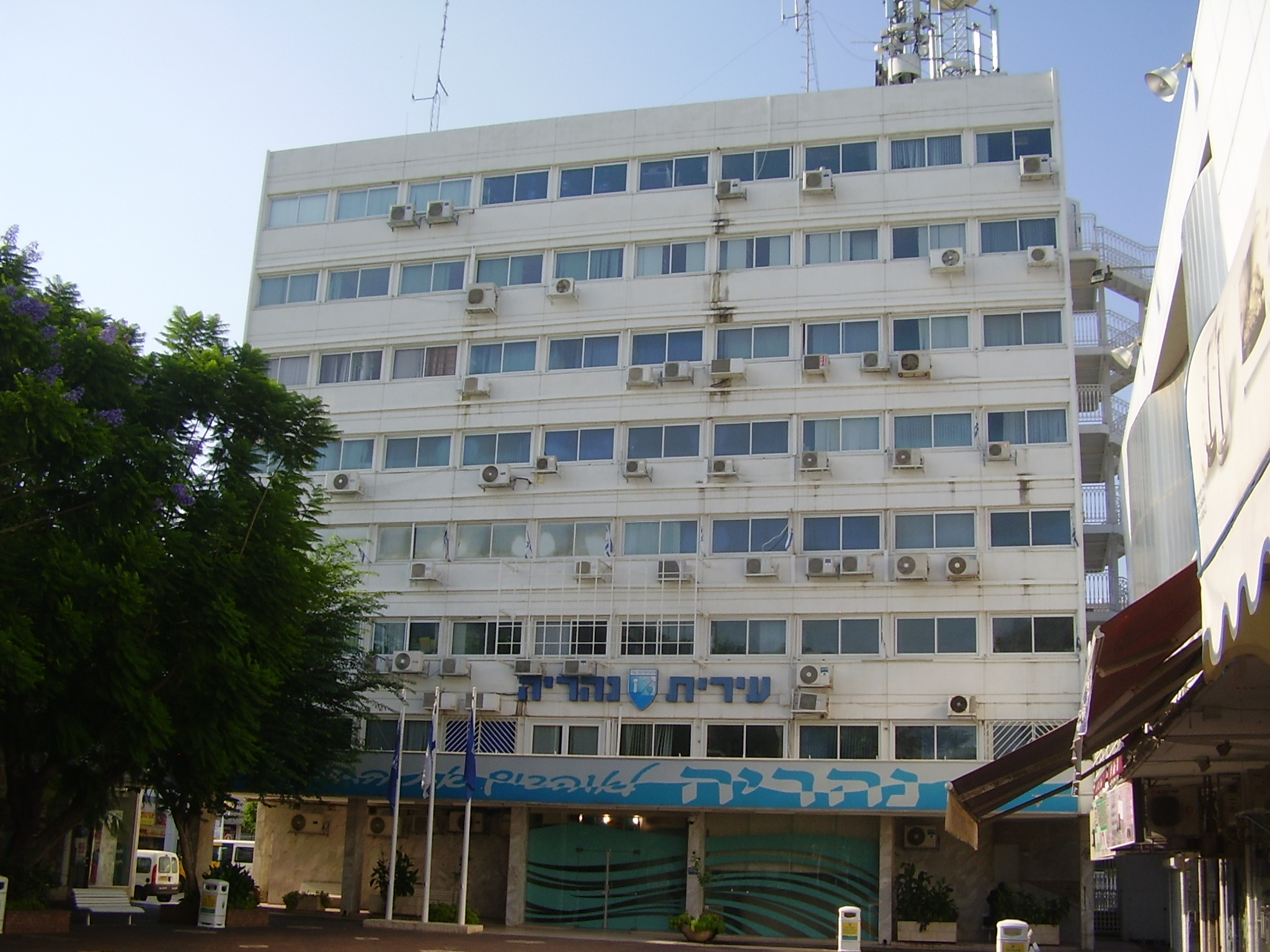 Nahariya Municipality